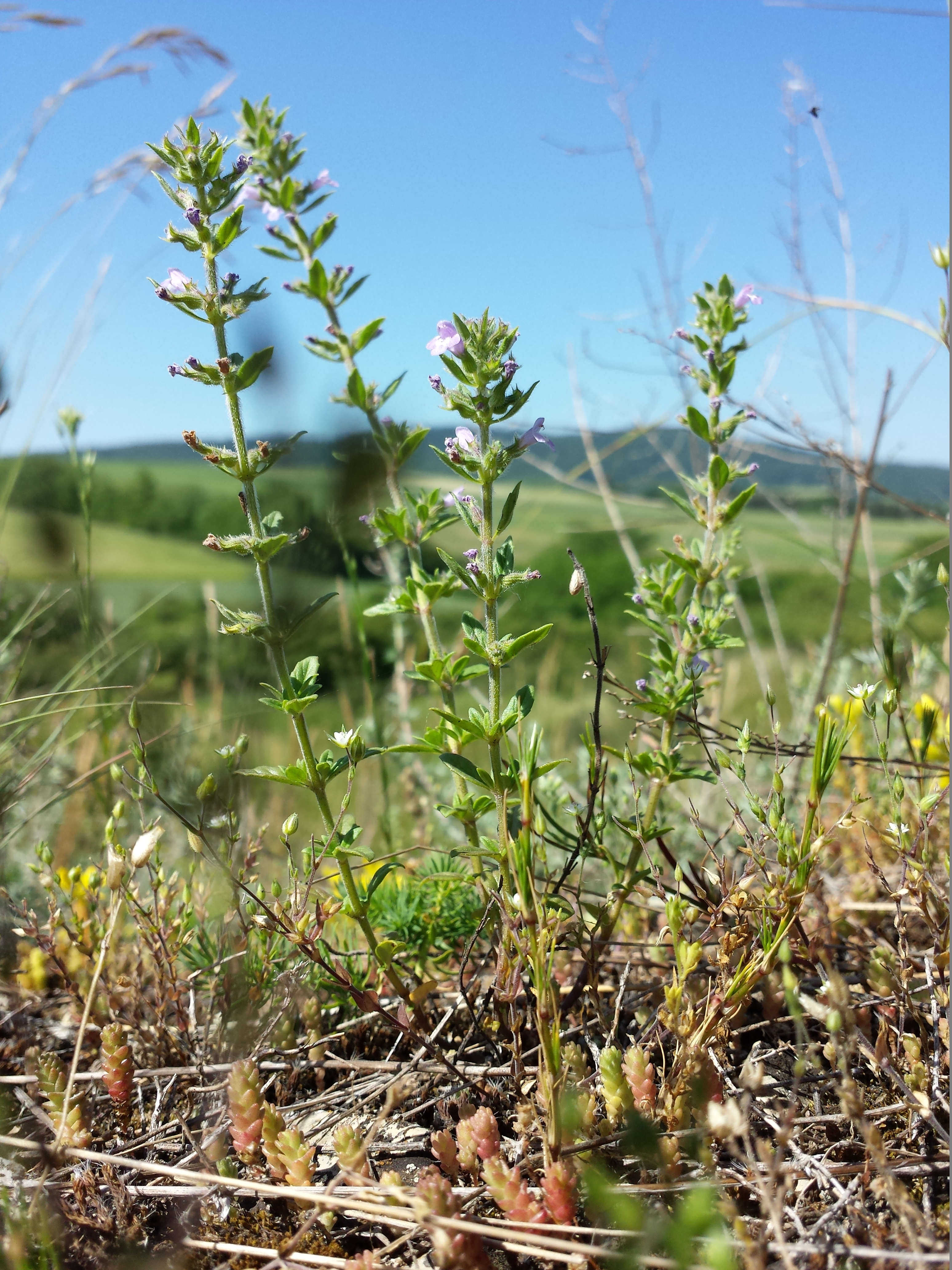 Habitus Taxon: Clinopodium acinos (sensu Fischer et al. EfÖLS 2008 ISBN 978-3-85474-187-9) Location: Natural monument Galgenberg (gallows hill) near Michelstetten, Asparn an der Zaya, district Mistelbach, Lower Austria - ca. 300 m a.s.l. Habitat: rock steppe (lime stone) This media shows the natural monument in Lower Austria with the ID MI-090.